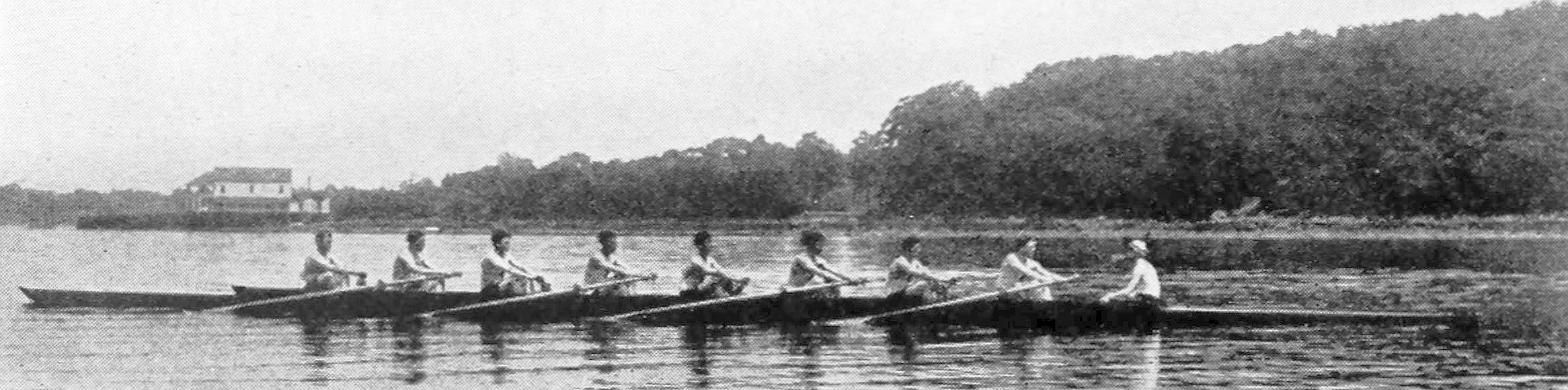 Wahnetah Boat Club training on Flushing Bay. Identifier: illustratedflush00rich Title: Illustrated Flushing and vicinity : College Point, Broadway-Flushing, Malba-on-the-Sound, Whitestone, Bayside, Douglaston, Little Neck in the third wa Year: 1917 (1910s) Authors: Richardson, Darby. Subjects: Publisher: [Flushing, N.Y.] : Darby Richardson Text Appearing Before Image: ' Text Appearing After Image: Wahnetah Boat Club Champion Eight. Won American Henley at Philadelphia, 1910Photograph Taken on Flushing Bay 46 FLUSHING AND VICINITY The clubs that are most prominent in sports are the Triangle ofFlushing, Wahnetah Boat Club of Flushing, Flushing Boat Club,Malba Field and Marine Club, Warlow of Whitestone, College PointLyceum, Broadway Country Club, Broadway-on-the-Hill Tennis Club,and the Shinnecock Club. These are all taking up athletics in variousdirections, but the real representative club of the Amateur AthleticUnion is the Shinnecock which, since joining the A. A. U. in 1915, hasfrom time to time promoted road races and cross-country runs opento the A. A. U. THE WAHNETAH BOAT CLUB succeeded the old Neriusorganization in 1897. It is recognized as one of the best rowing associa-tions in the country. In 1910 its eight crew won the American Henleyon the Skulkill River (Phila.) against the countrys finest crews, and onDecoration Day, 1910, Wahnetah eight won again at the Harlem Rive